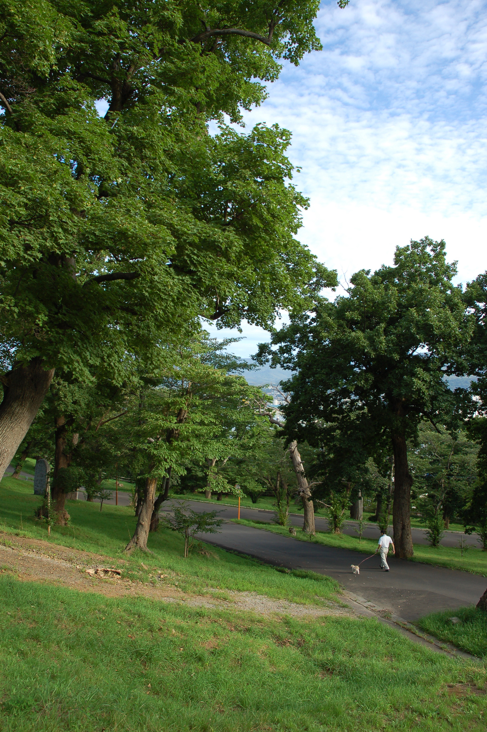 Temiya Park, Otaru, Hokkaido. September 2010.